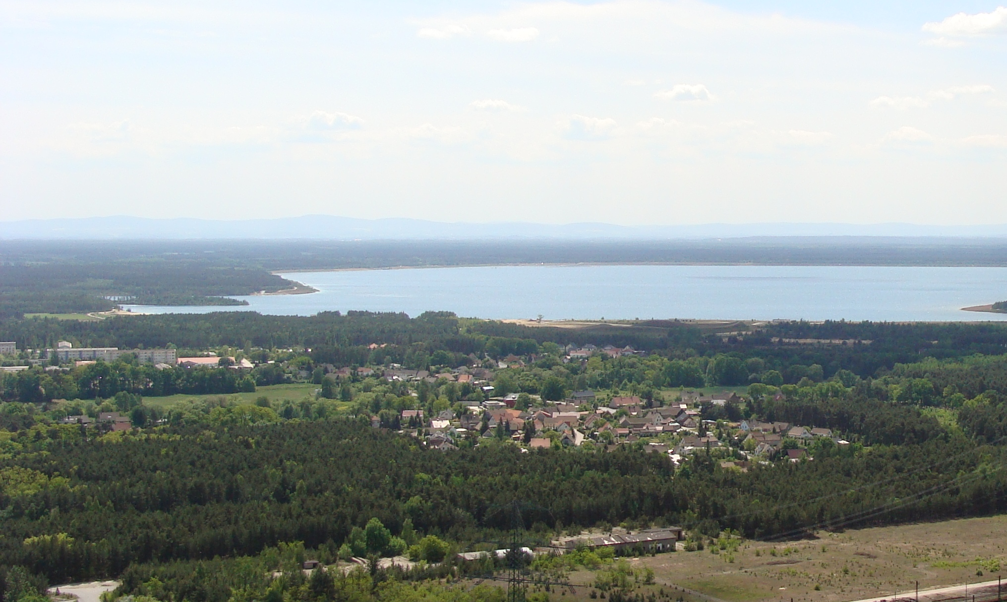 district Boxberg of the municipality Boxberg/O.L. in Saxony, Germany; in the background the Bärwalder lake.